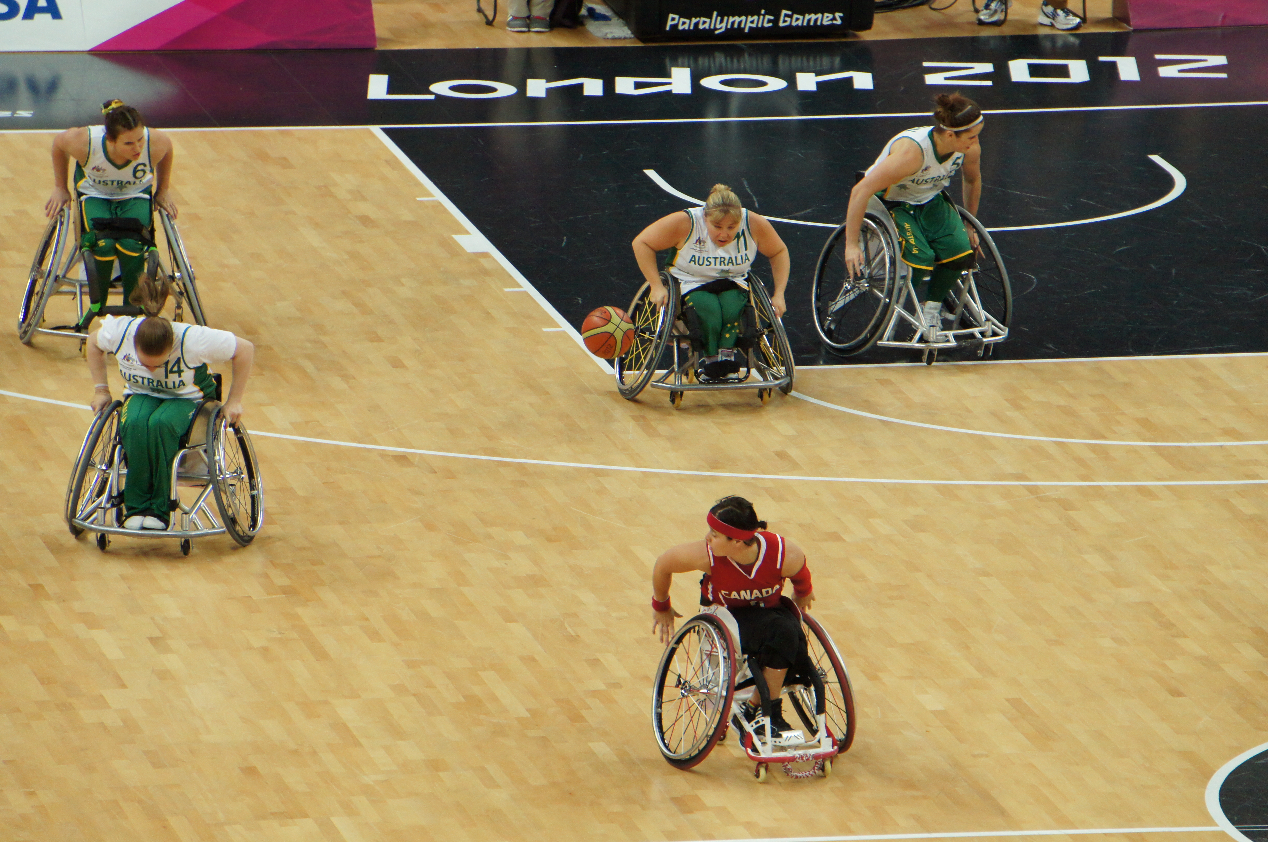 Australia - Canada, women's wheelchair basketball at Paralympics 2012, September 1